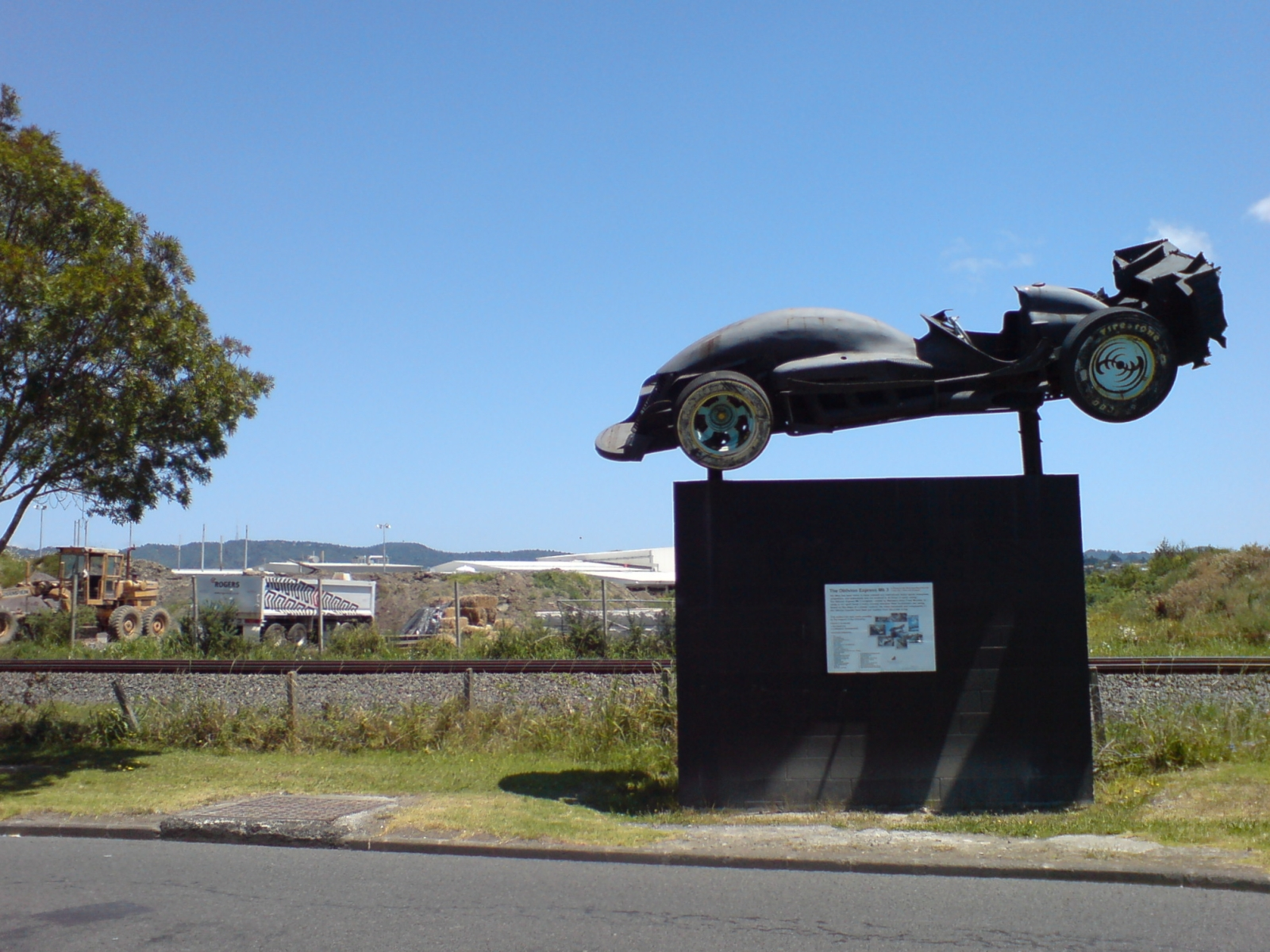 'Oblivion Express' a statue in Waitakere City, New Zealand, dedicated to the "Westies"' love of cars, and to racing sports and racing legends like Bruce McLaren. Coordinates approximate (correct street, but might be some distance further north in fact). Looking west.